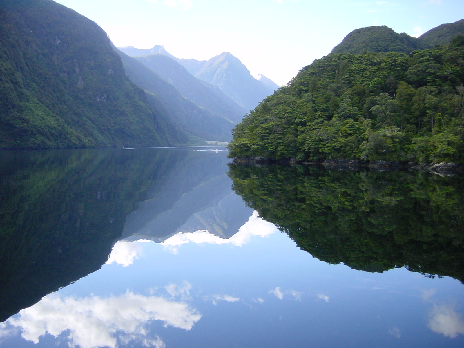 Doubtful Sound in Fiordland, New Zealand on a clear day with mirror water surface in lower foreground.